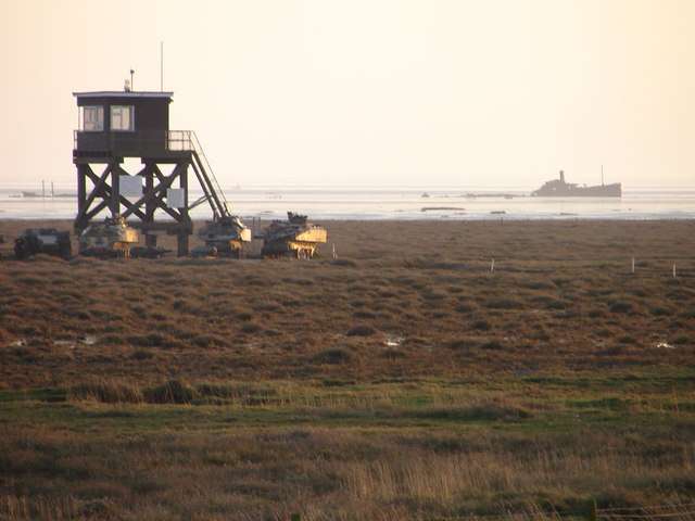 Tower and Targets, RAF Wainfleet The targets in the background are old ships. Note the armoured vehicles at the foot of the tower.